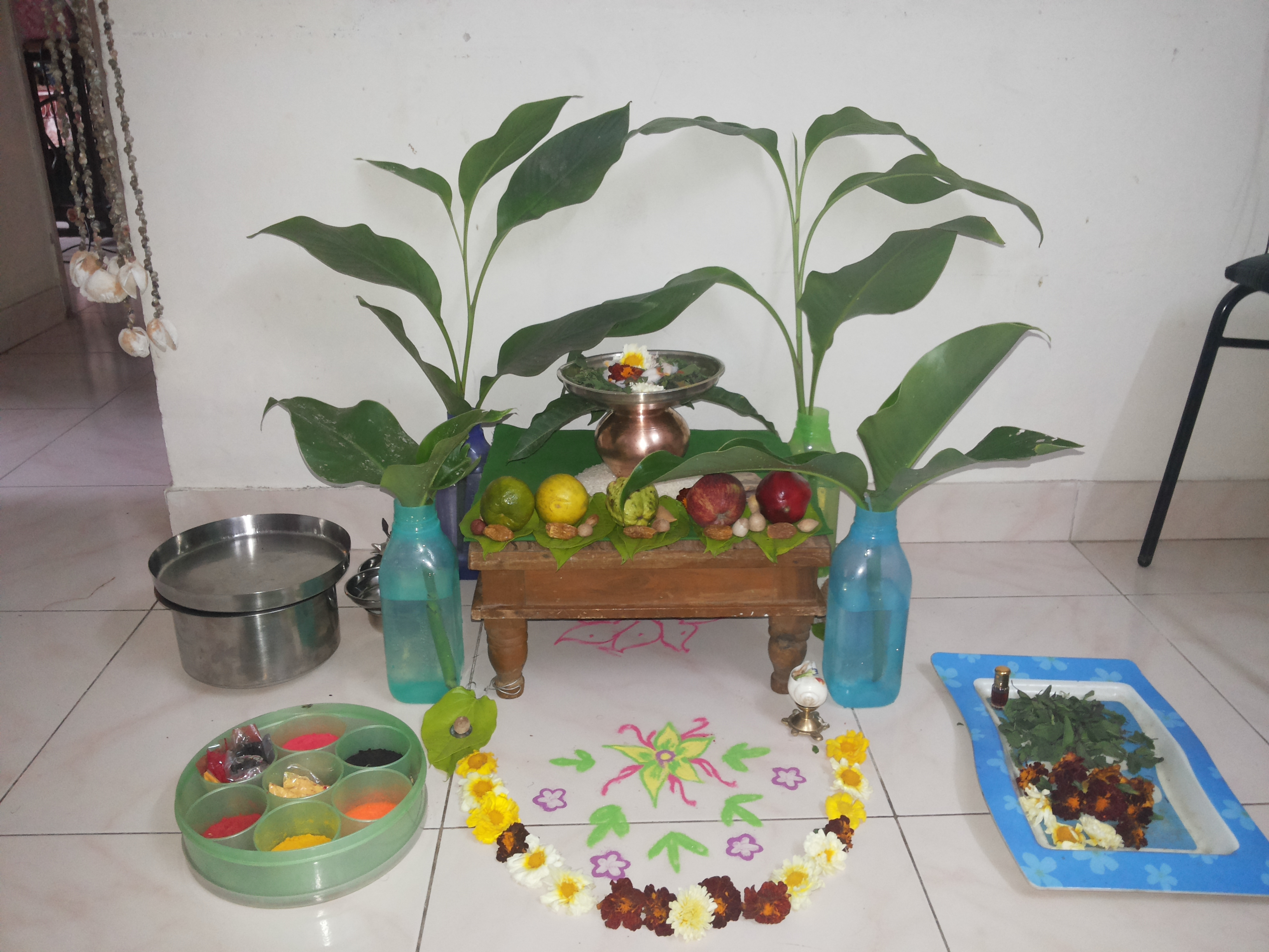 Satyanarayan Pooja